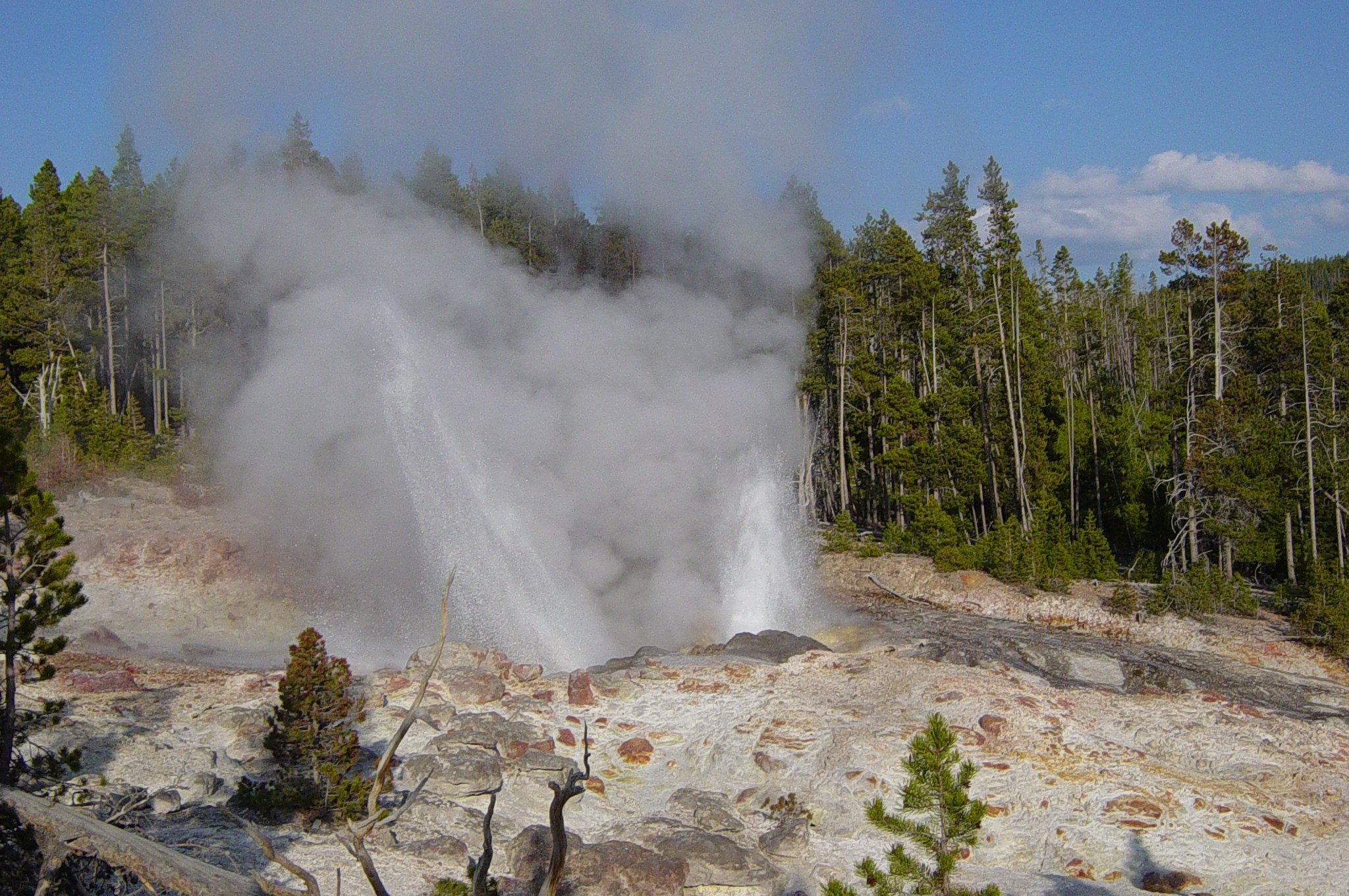 Photo taken in the Yellowstone area.